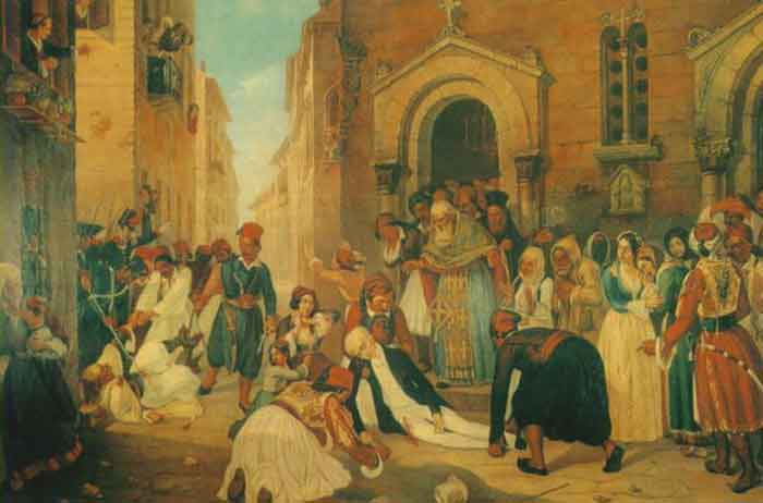 Death of Kapodistrias